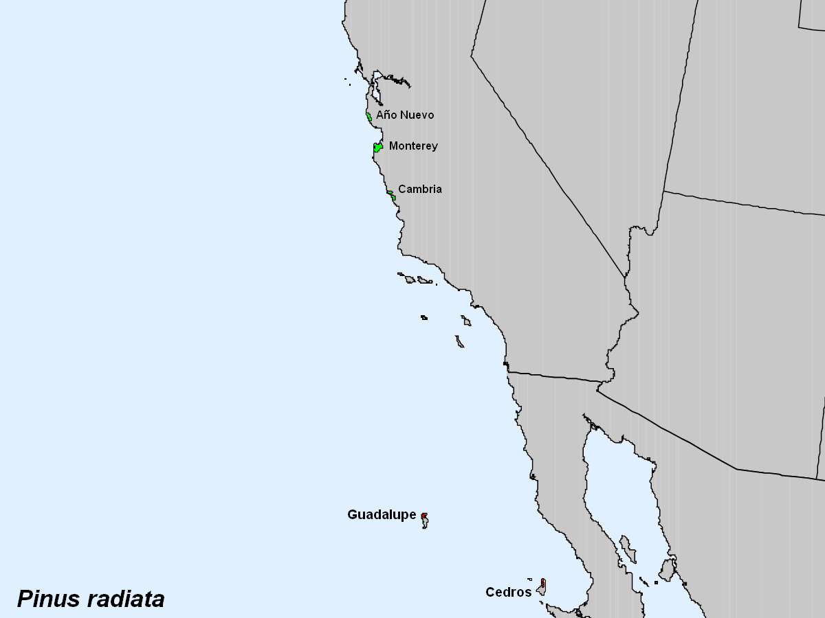 Range map of Monterey pine (Pinus radiata)